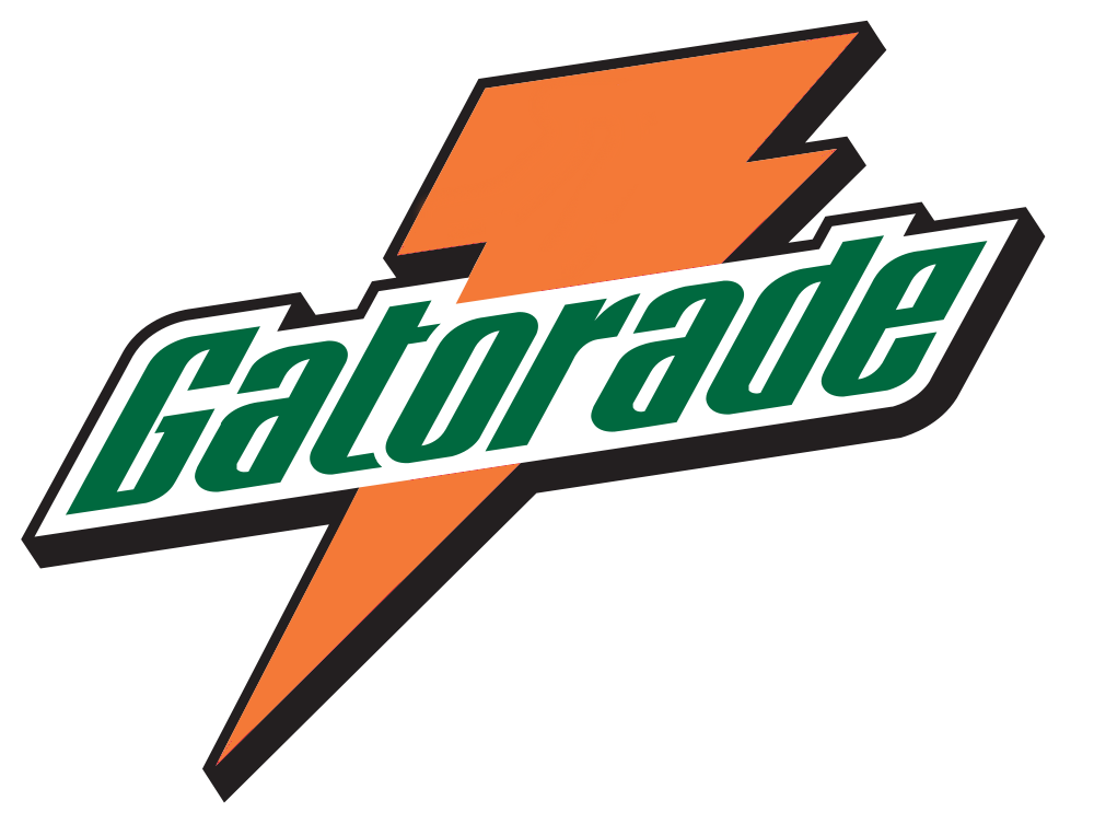 Gatorade logo before 2009